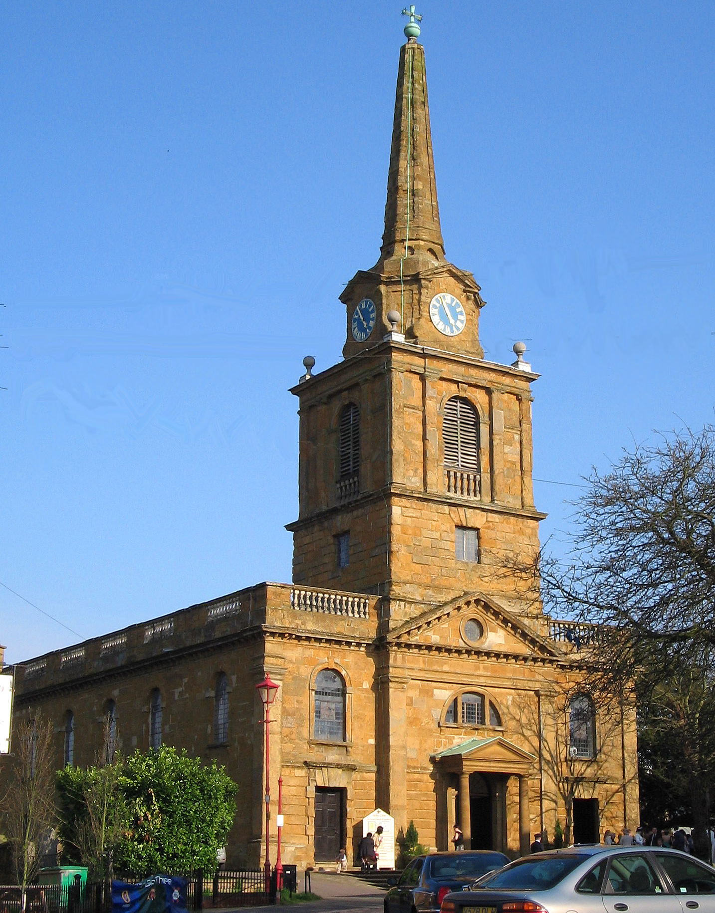 The unnusual Holy Cross Church in Daventry, the church was constructed from local ironstone between en:1752-en:1758. Photo by G-Man April 2005